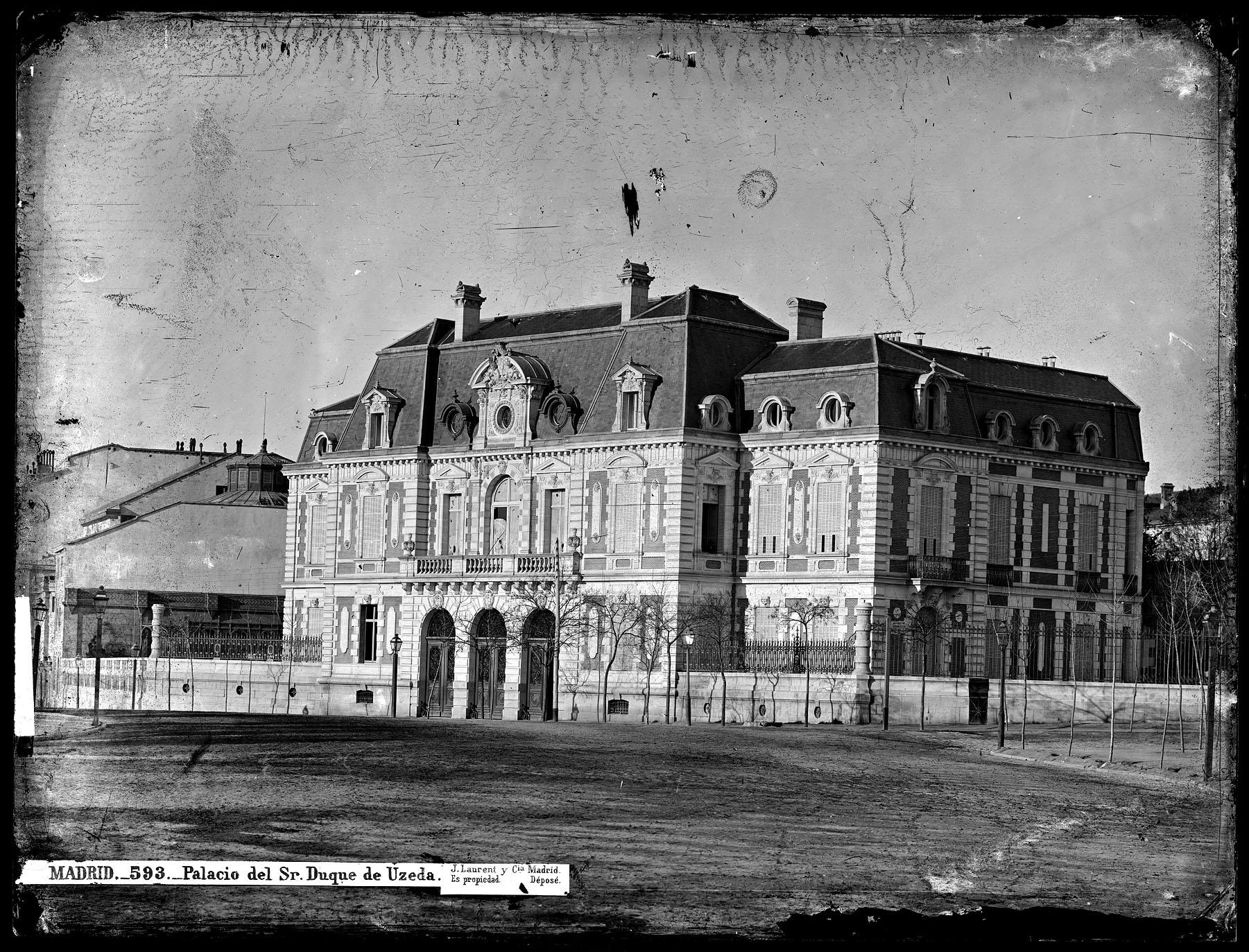 Palace of the X Dukes of Uceda